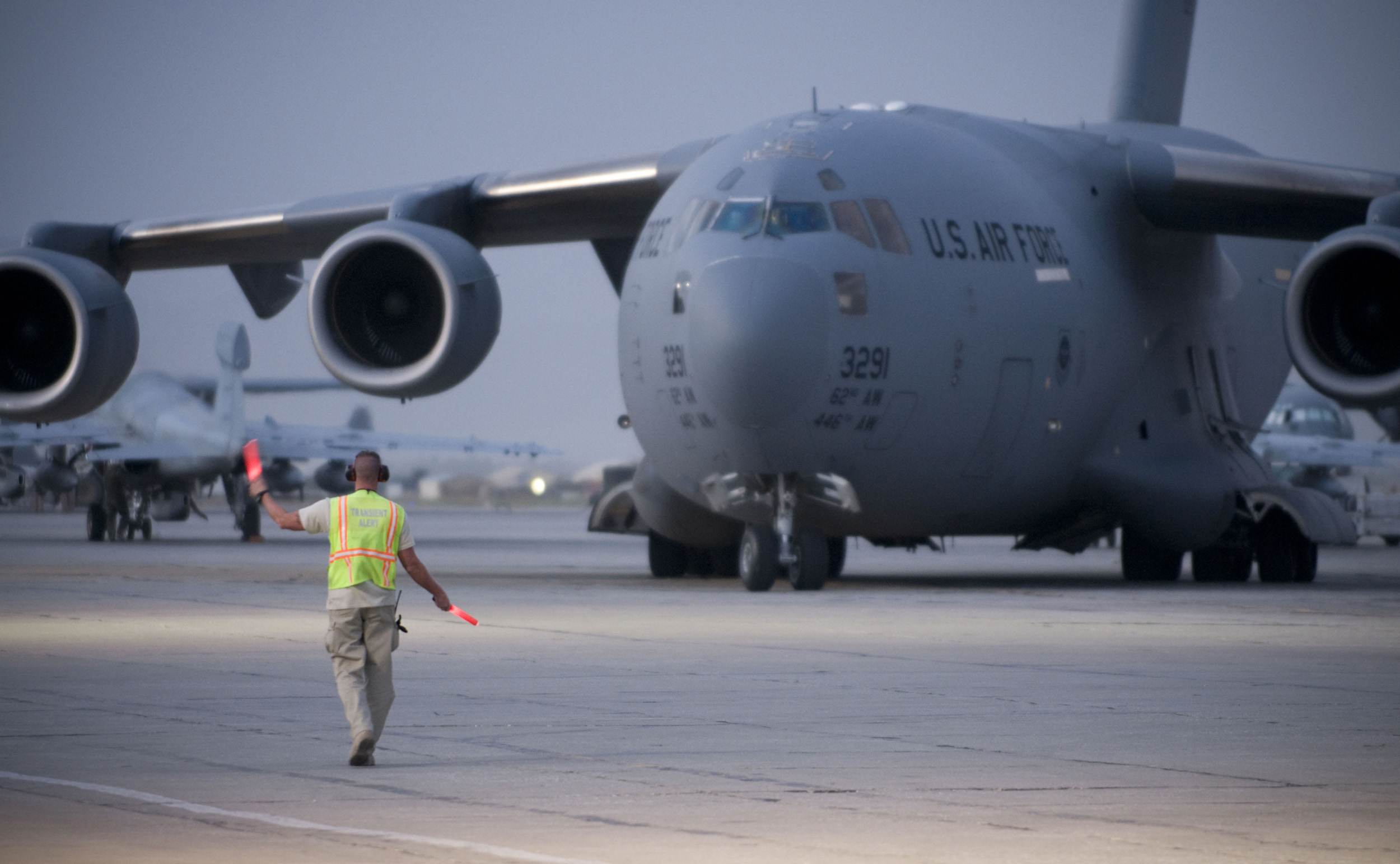 Marshaling in the beast; BAGRAM AIR FIELD, Afghanistan -- A McChord AFB C-17 Globemaster III is marshaled into position for unloading here on July 20, 2008. The most recent addition to the airlift mission, the C-17 adds flexibility with a relatively large cargo capacity of 169,000lbs.